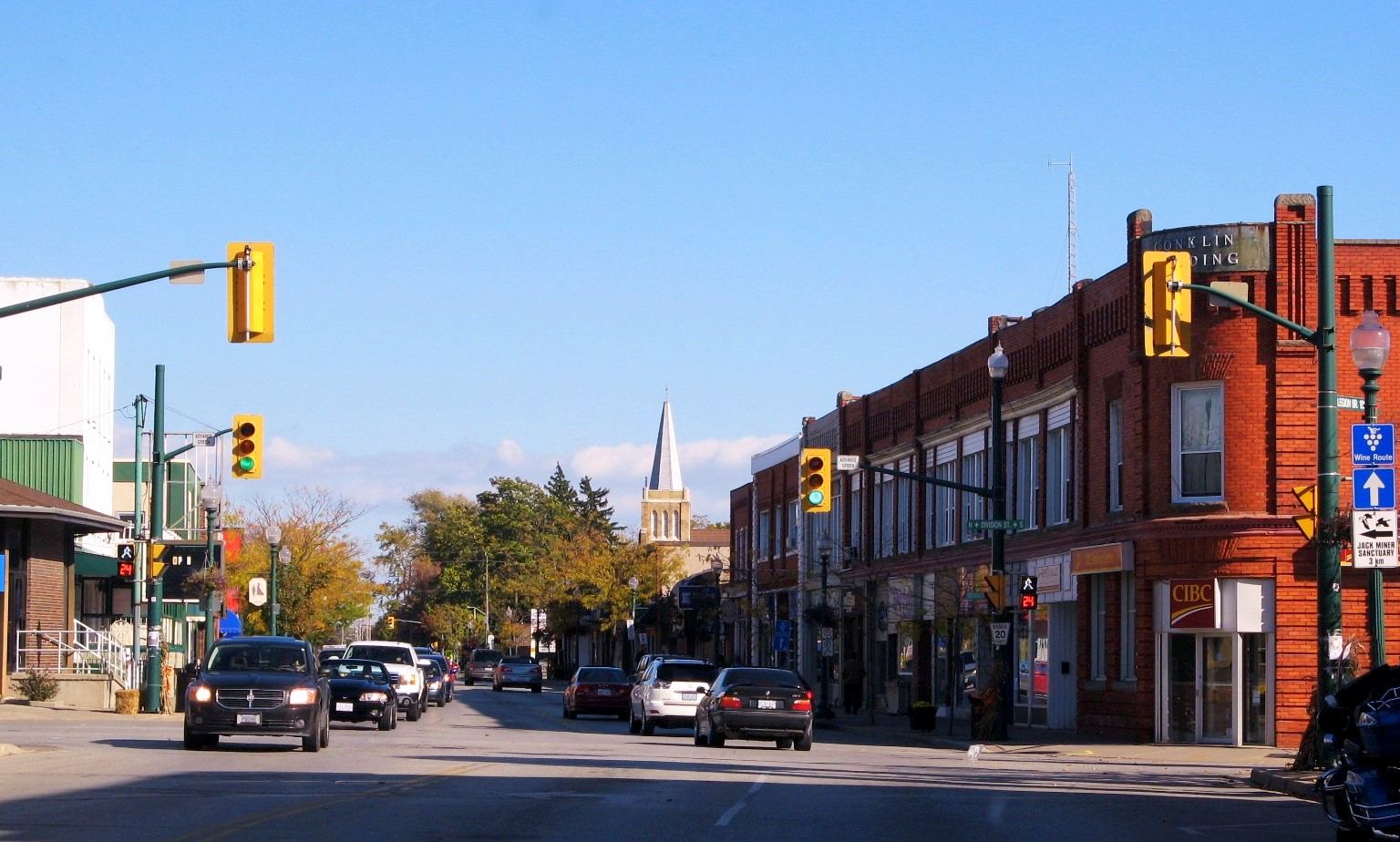 Nearest town to Leamington.